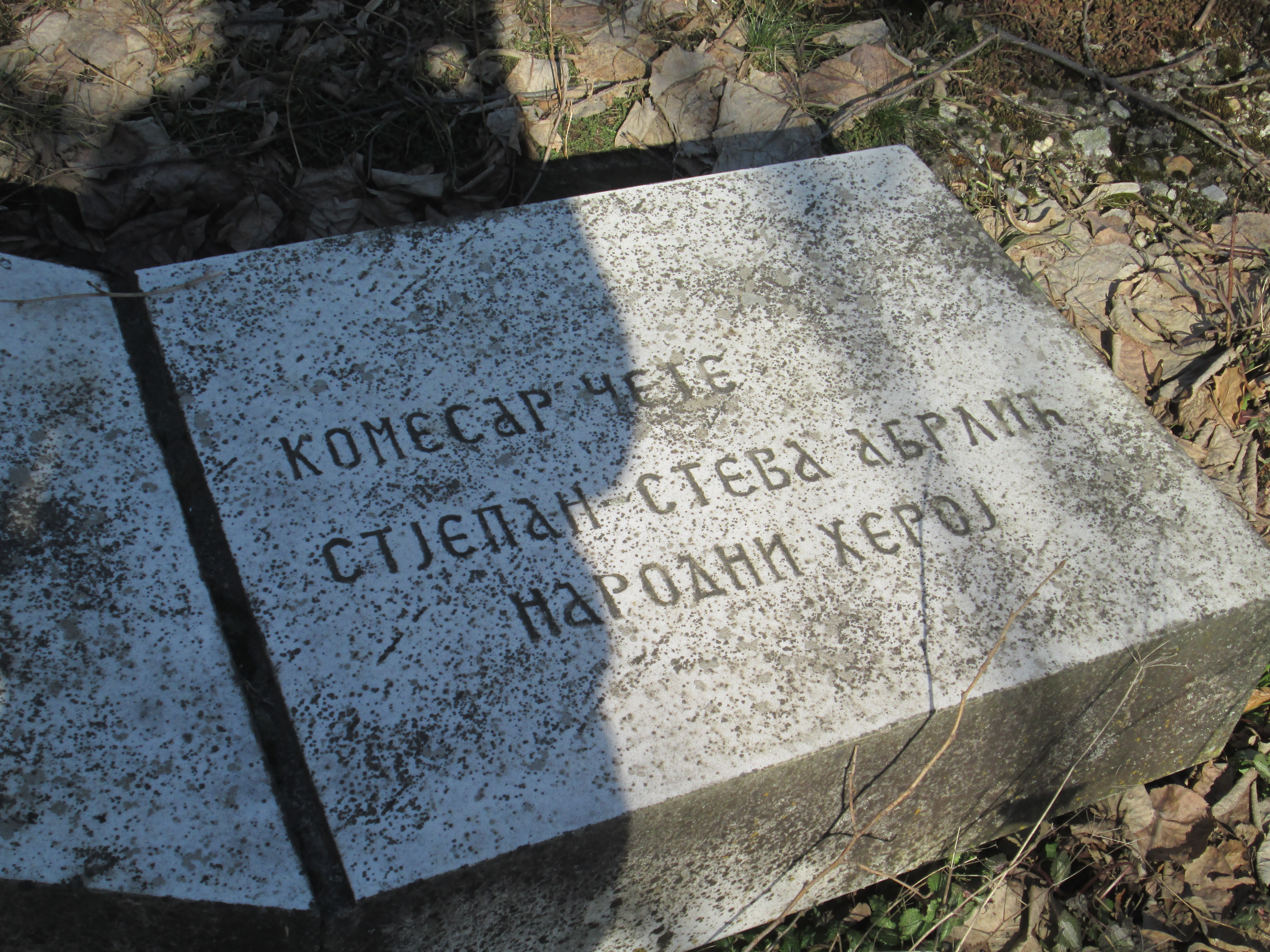 Monument to the fallen Partisans in village including national hero Stjepan Steva Abrlić. Српски (ћирилица): Споменик палим Партизанима у селу Лисовић, укључујући и комесара чете, народног хероја Стјепана Стеву Абрлића.